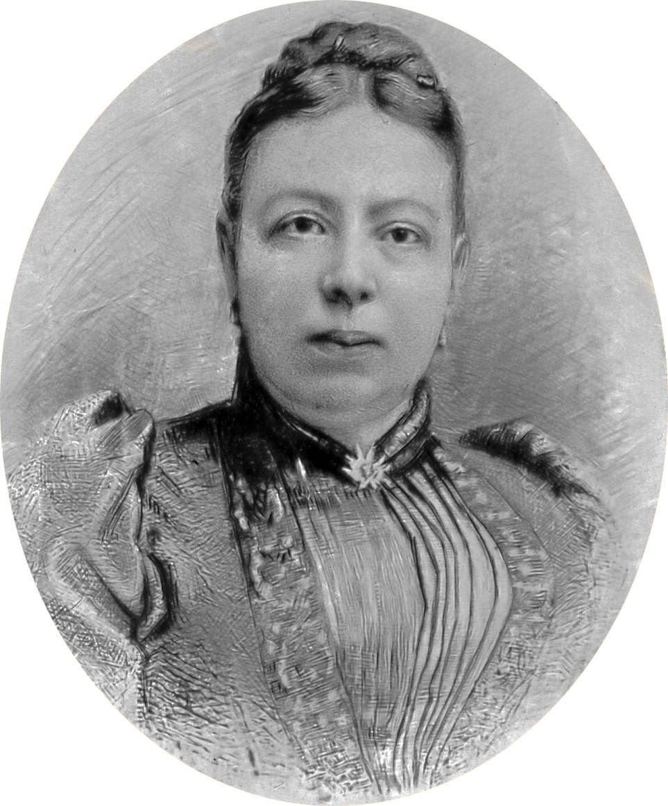 Nicolina Maria Christina Sloot (1853-1927) Melati van Java